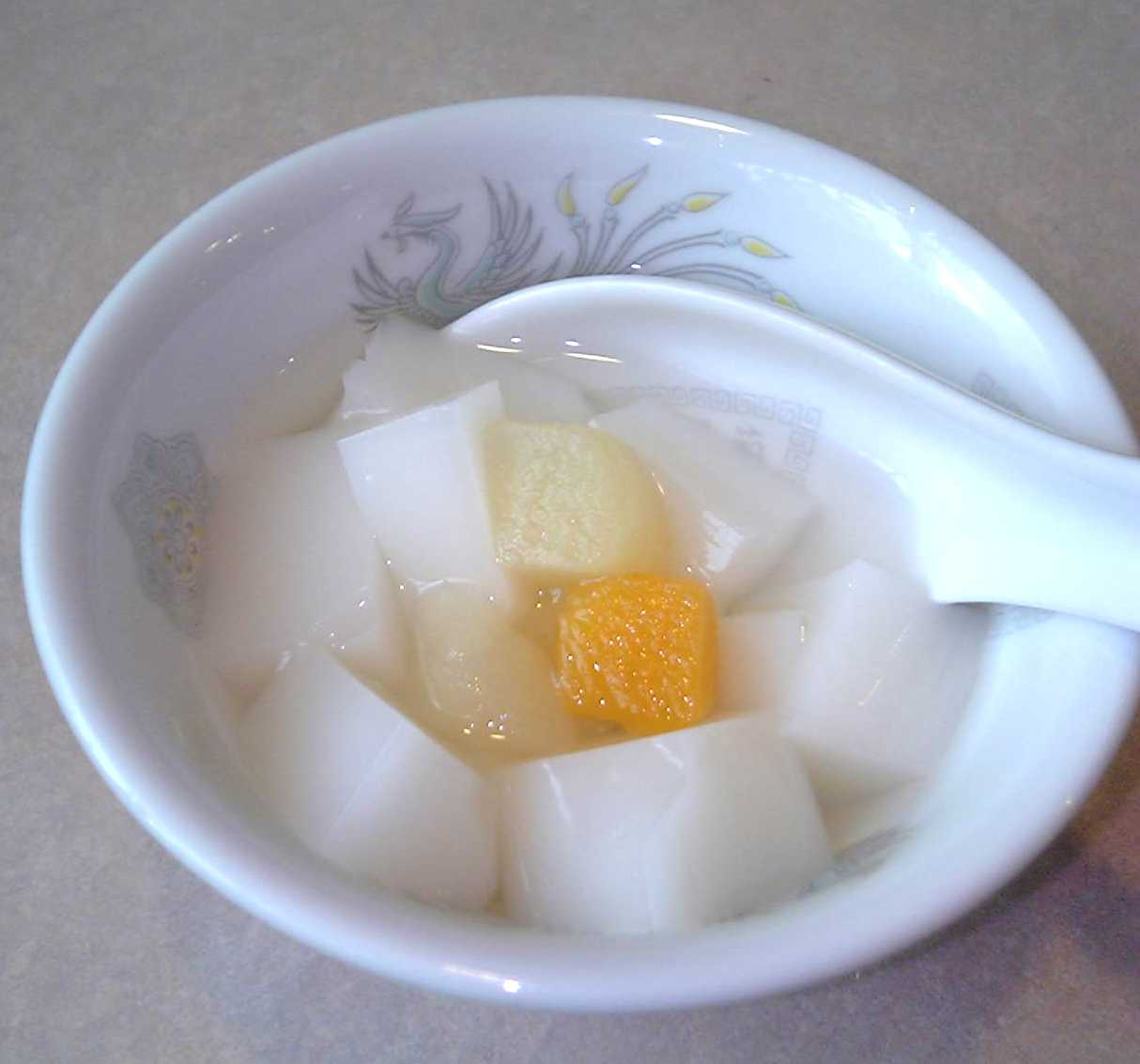 Almond jelly